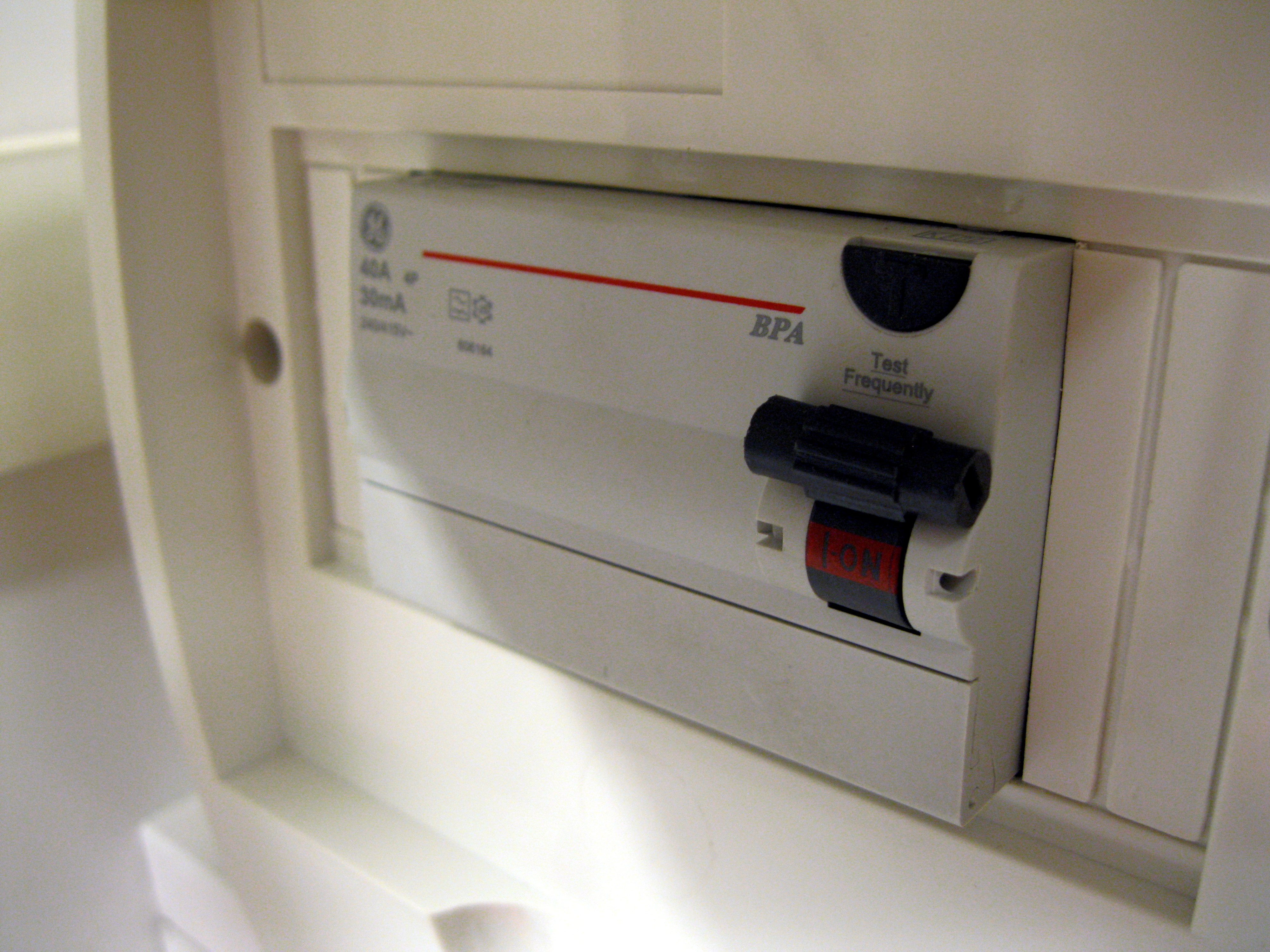 Residual-current device by GE Industrial Solutions.